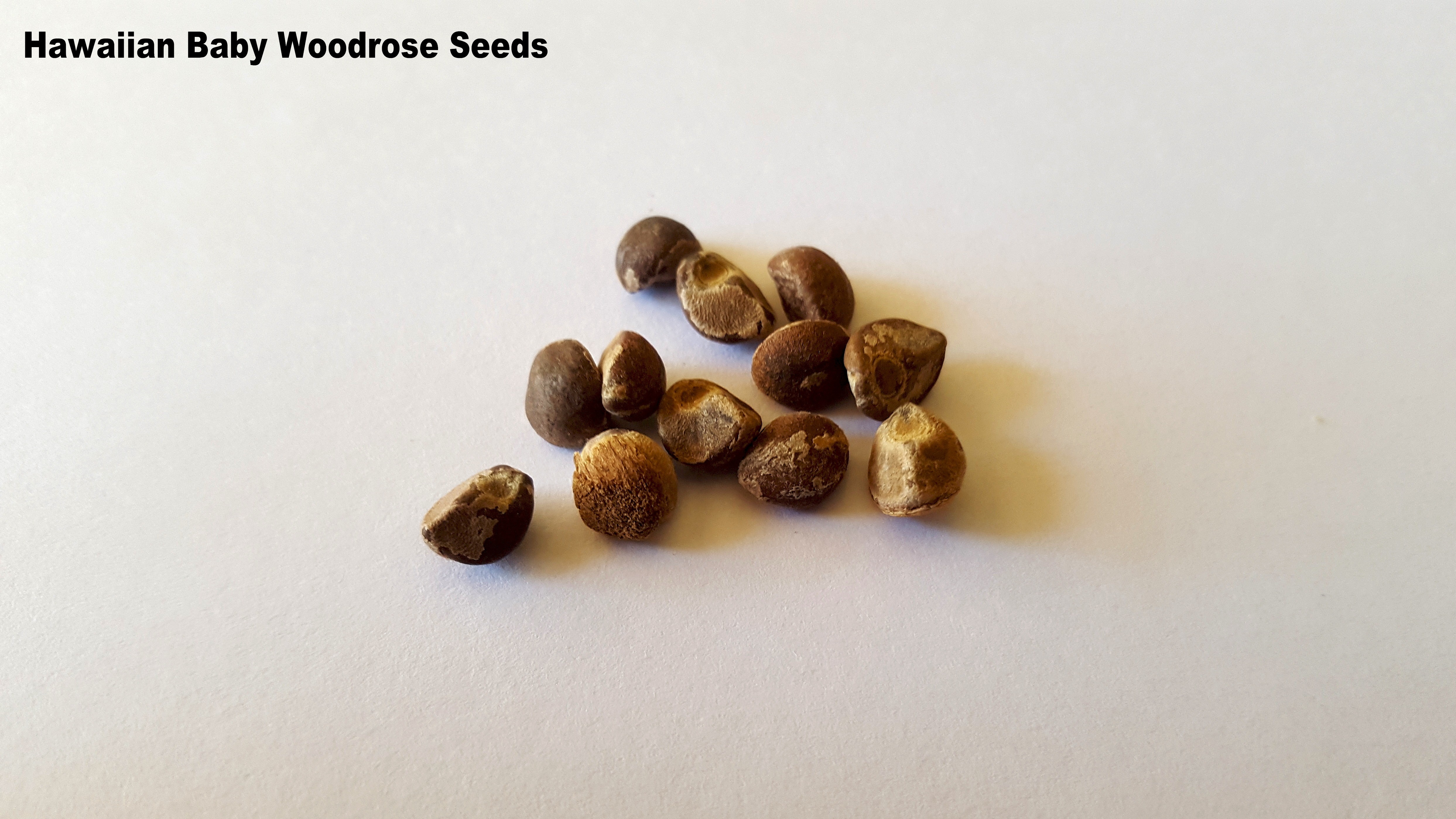 Hawaiian Baby Woodrose Seeds from the Argyreia Nervosa climbing vine, contain various ergoline alkaloids including lysergic acid, and have a lengthy entheogenic history.